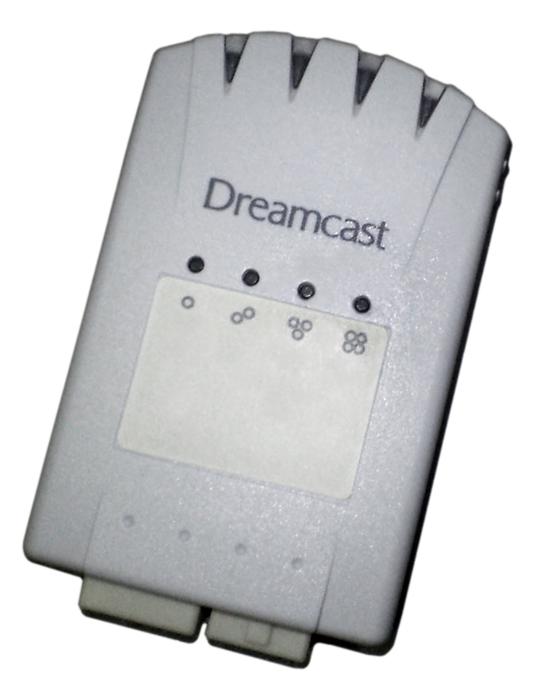 Memory Card 4x, other type of memorycard for Dreamcast